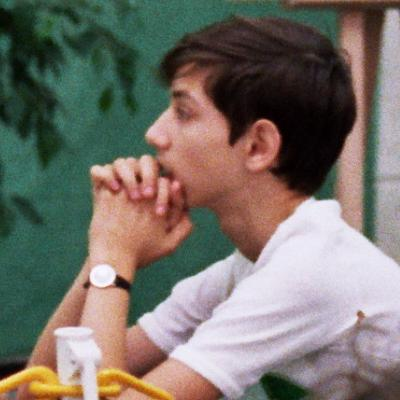 Joel Benjamin, Junior Chess World Championship 1980 at Dortmund, Photographer Gerhard Hund.